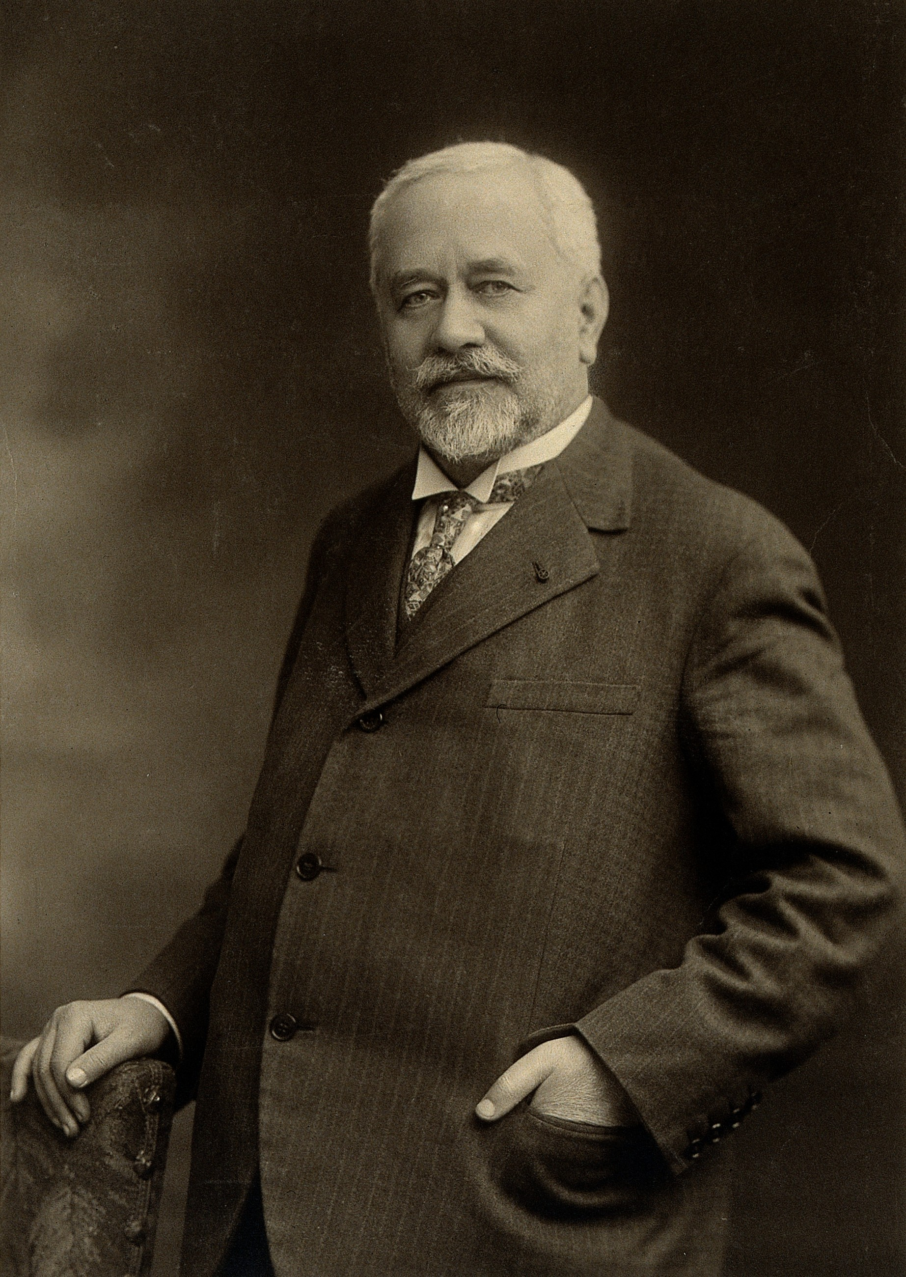 Charles Albert Calmette. Photograph, 1930. Iconographic Collections Keywords: portrait photographs